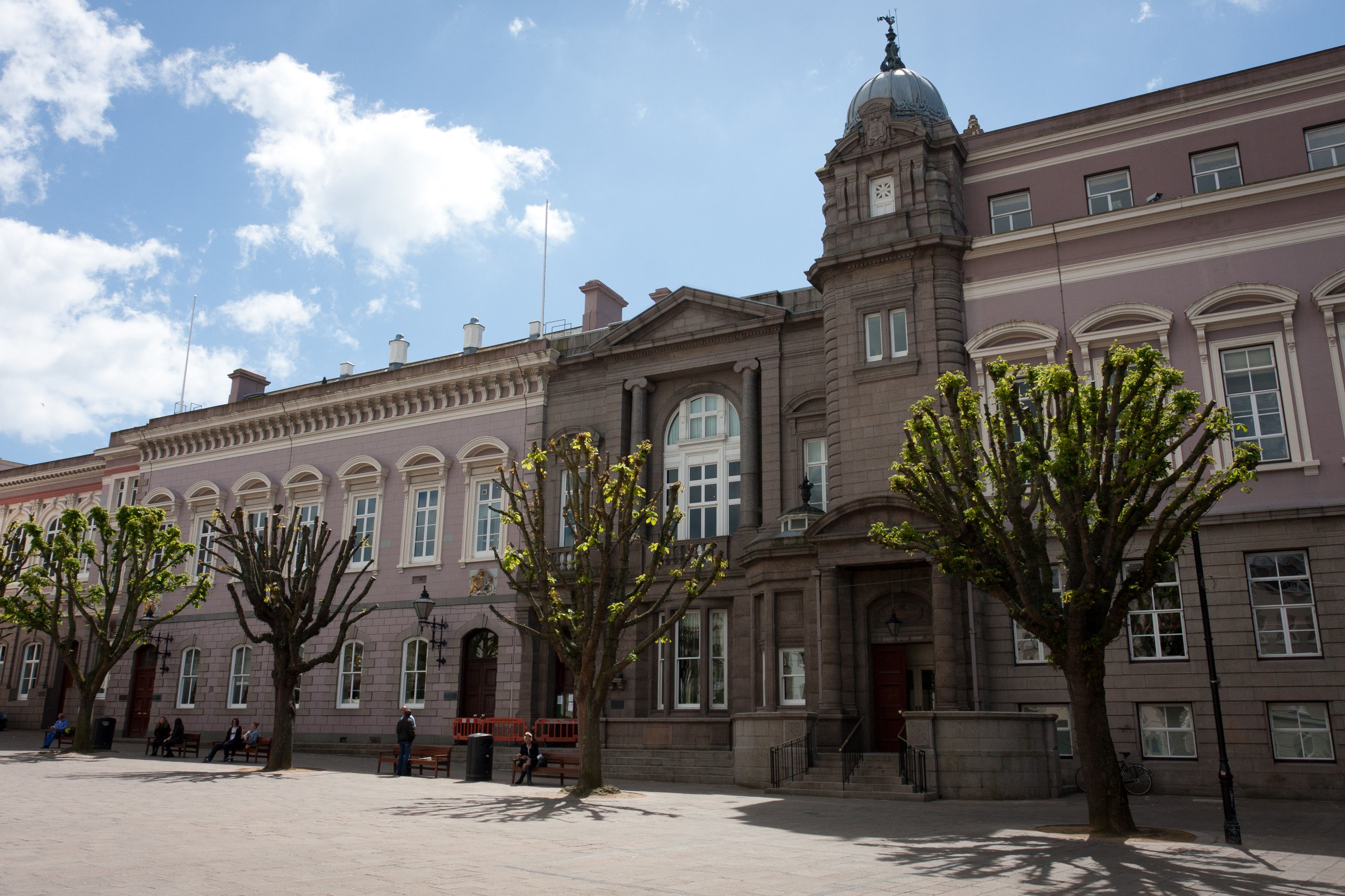 States Building, St. Helier, Jersey.